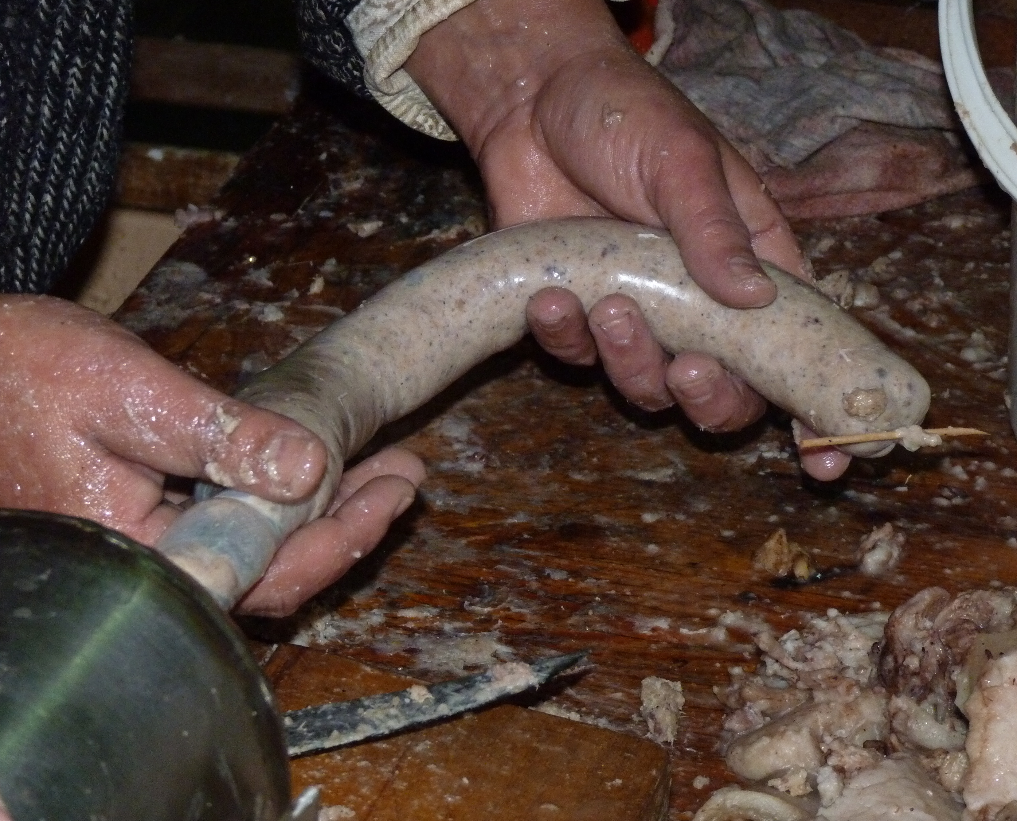 Making jitrnice, traditional Czech food. Pig slaughter in the Czech Republic